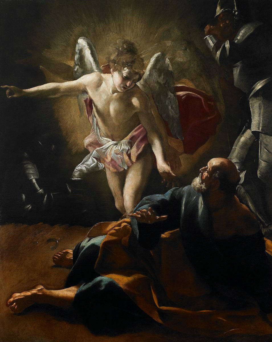 An unfinished painting depicting the Biblical events of Acts 12:6-7, where Peter is freed from prison by an angel.